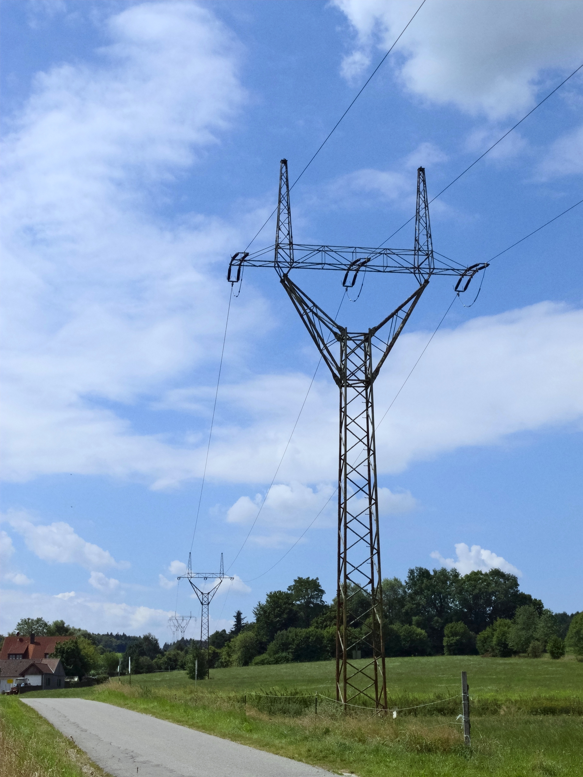 Delta pylon near Adelsried, Germany